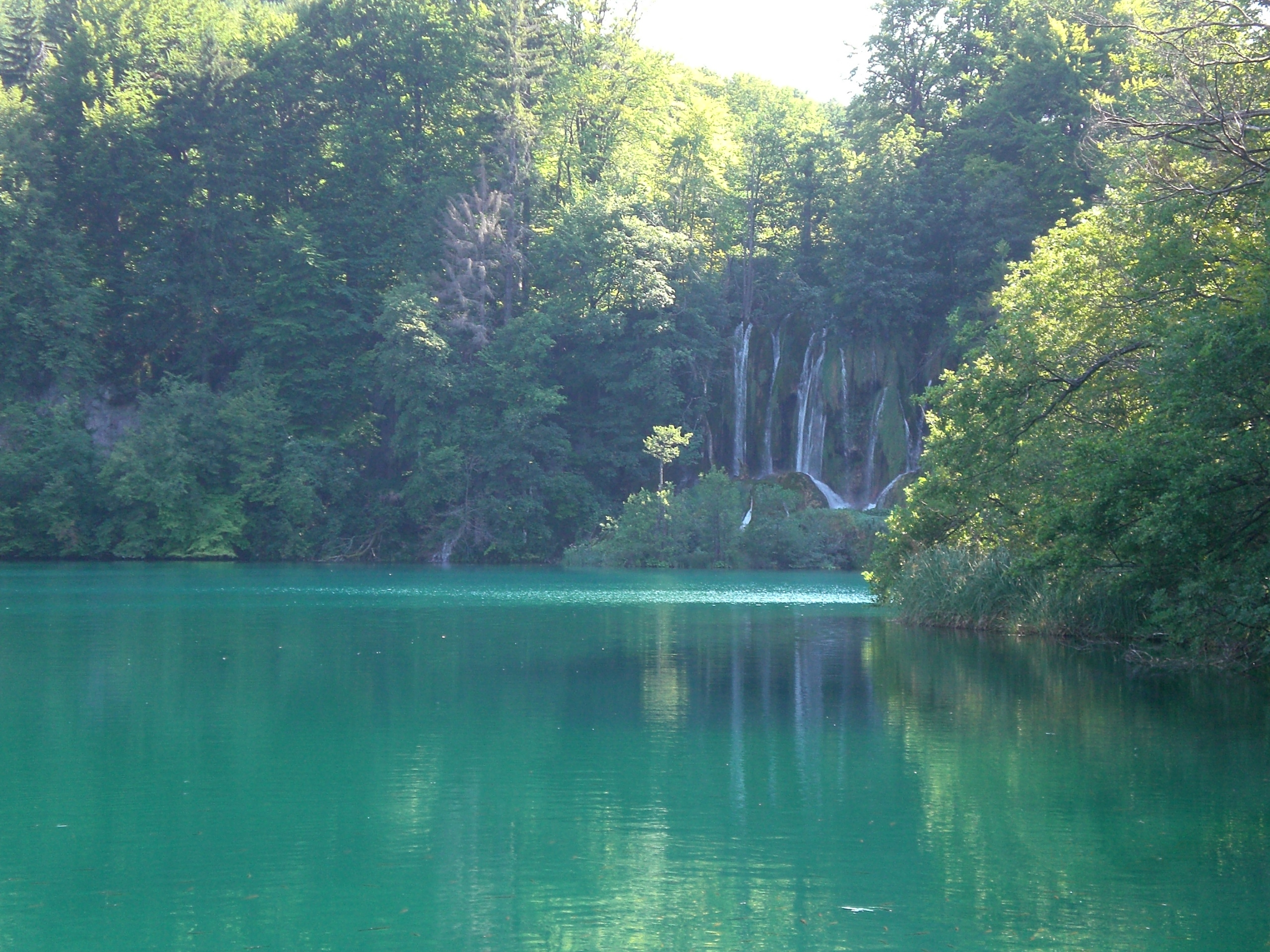 Waterfall in the Plitvice Lakes National Park.